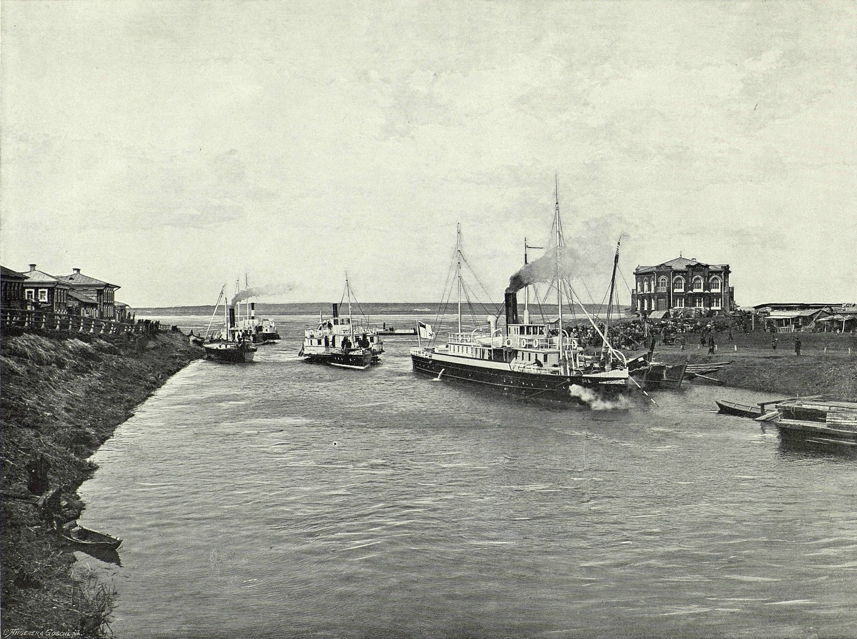 «Great Path - Views of Siberia and Great Siberian Railway» book, 1899